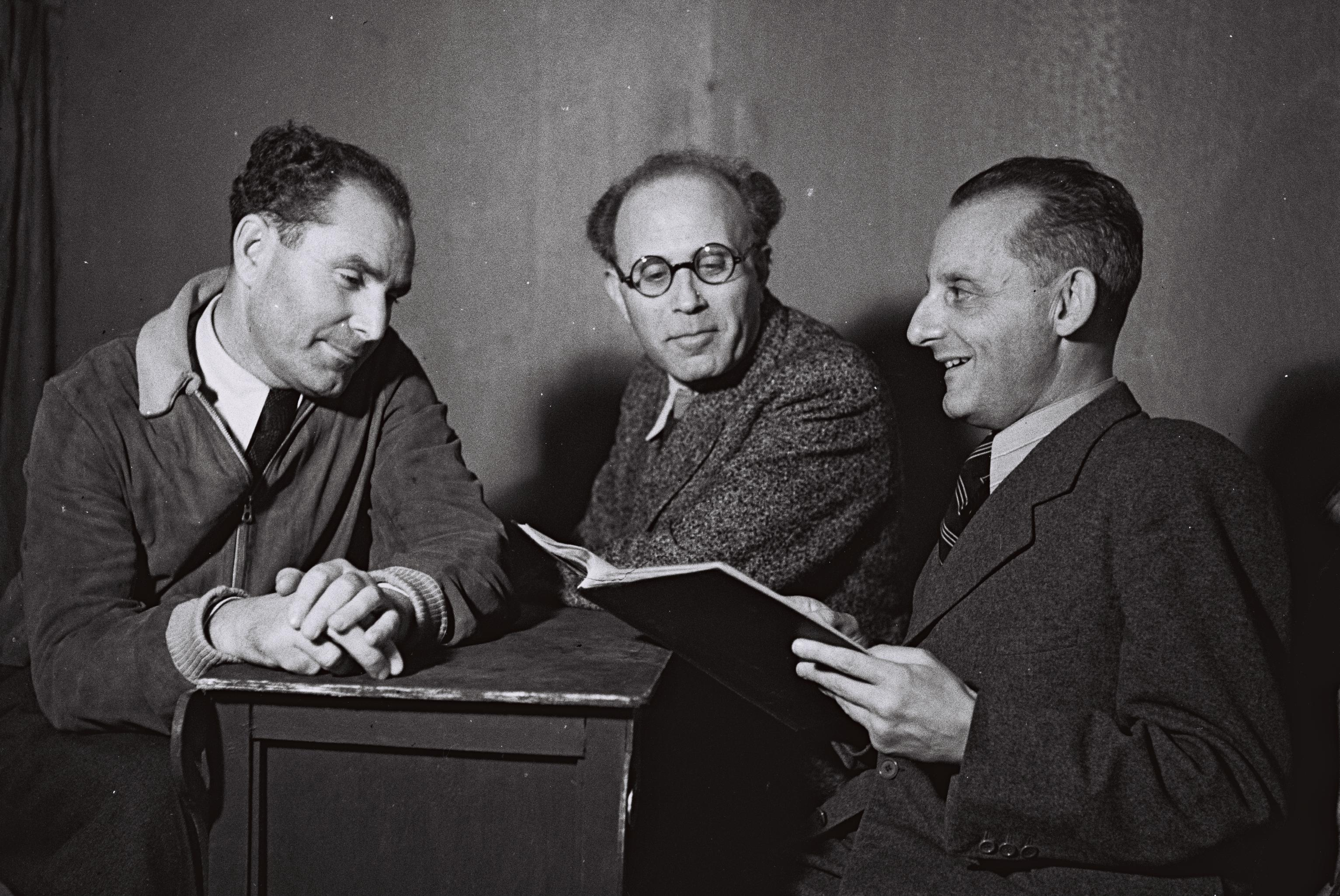 THE AUTHOR AND ARTISTIC DIRECTOR OF THE HABIMA THEATRE, DR. MAX BROD (RIGHT), WITH STAGE DIRECTORS TSHEMERINSKY AND ZVI FRIEDLAND (LEFT). Depicted people: Max Brod, Barukh Chemerinsky and Zvi Friedland